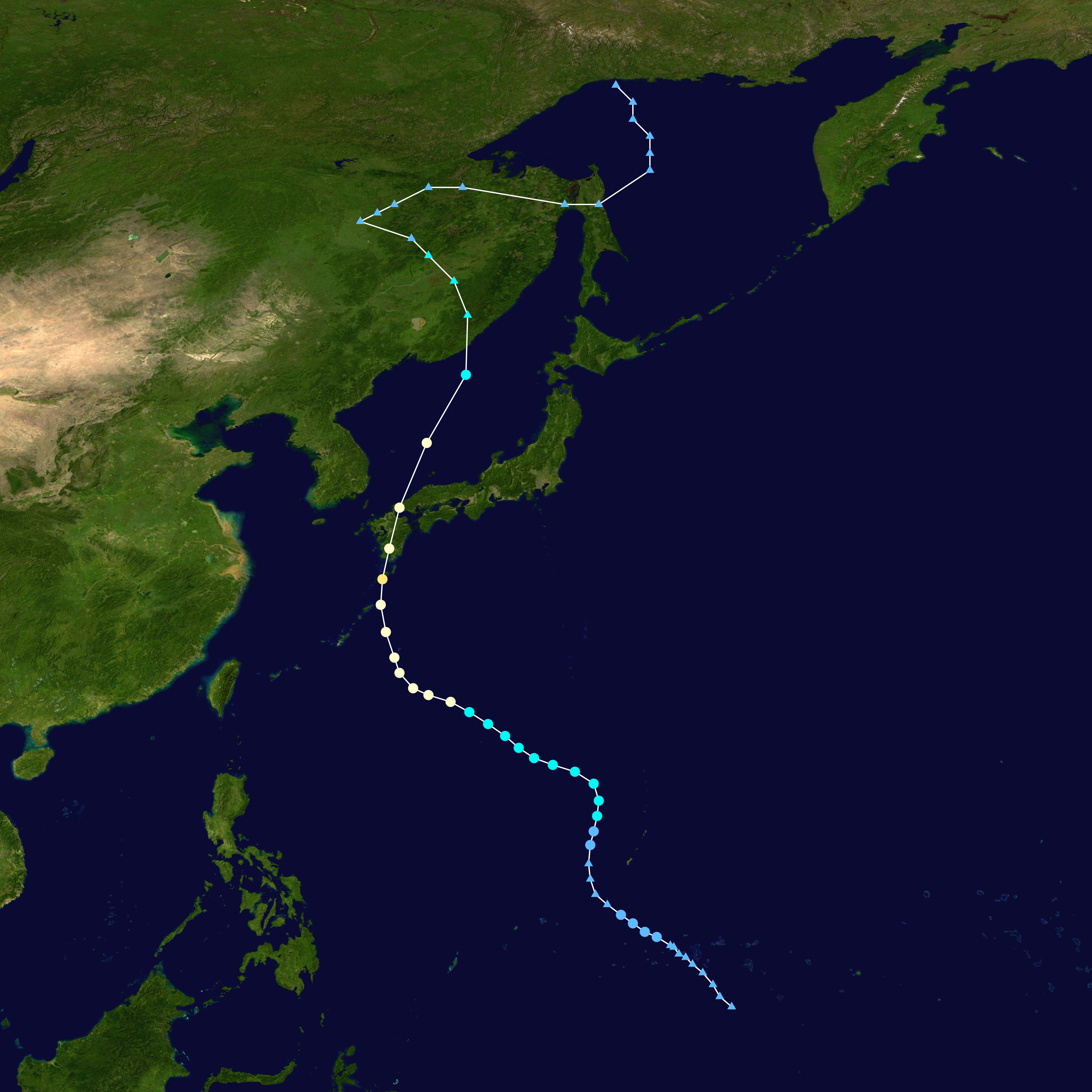 Typhoon Orchid 1980 track. Uses the color scheme from the Saffir-Simpson Hurricane Scale.